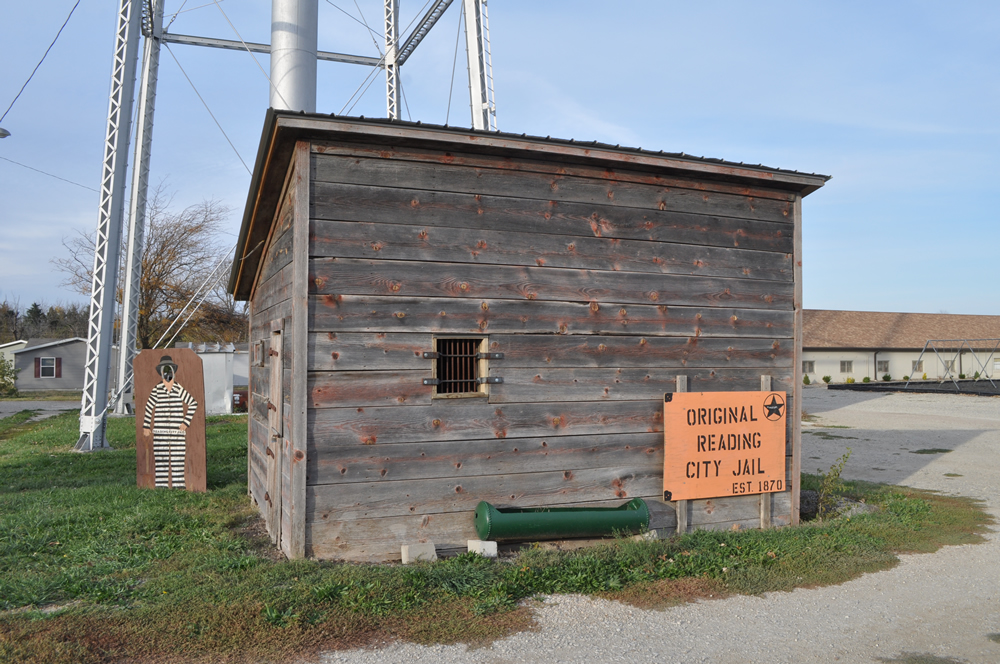 The Old Reading Kansas Jail